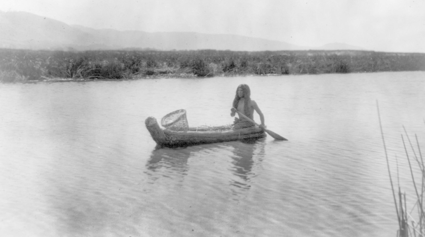 Indian in canoe made of rushes, Calif.